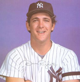 Professional baseball player Dave Righetti during the 1981 season as a member of the New York Yankees.